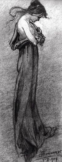 Female figure, ink drawing by Romanian-Transylvanian Saxon painter Hans Bulhardt.